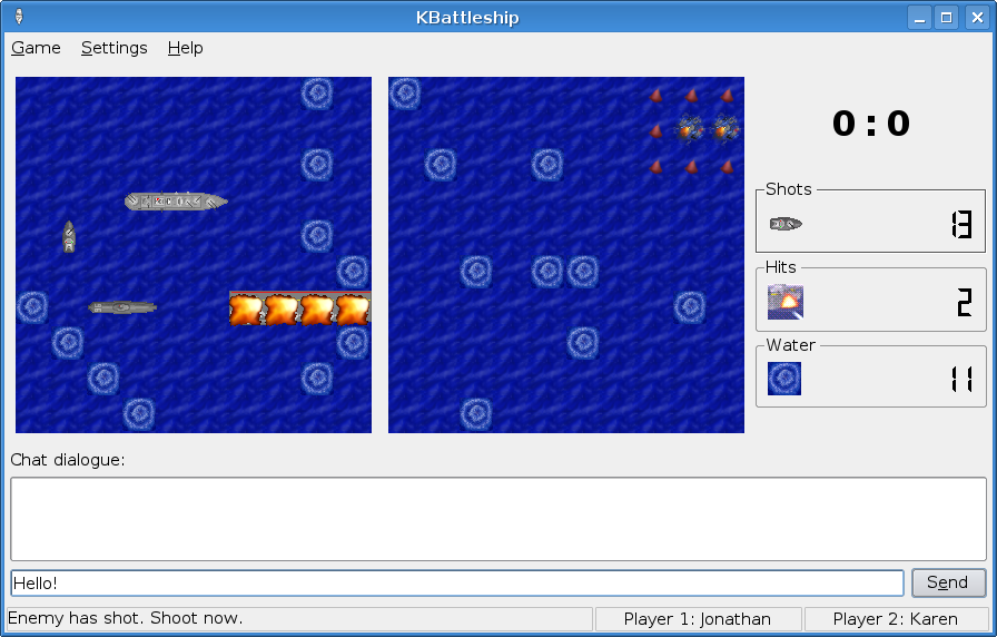 This is a screenshot of a KBattleship game.